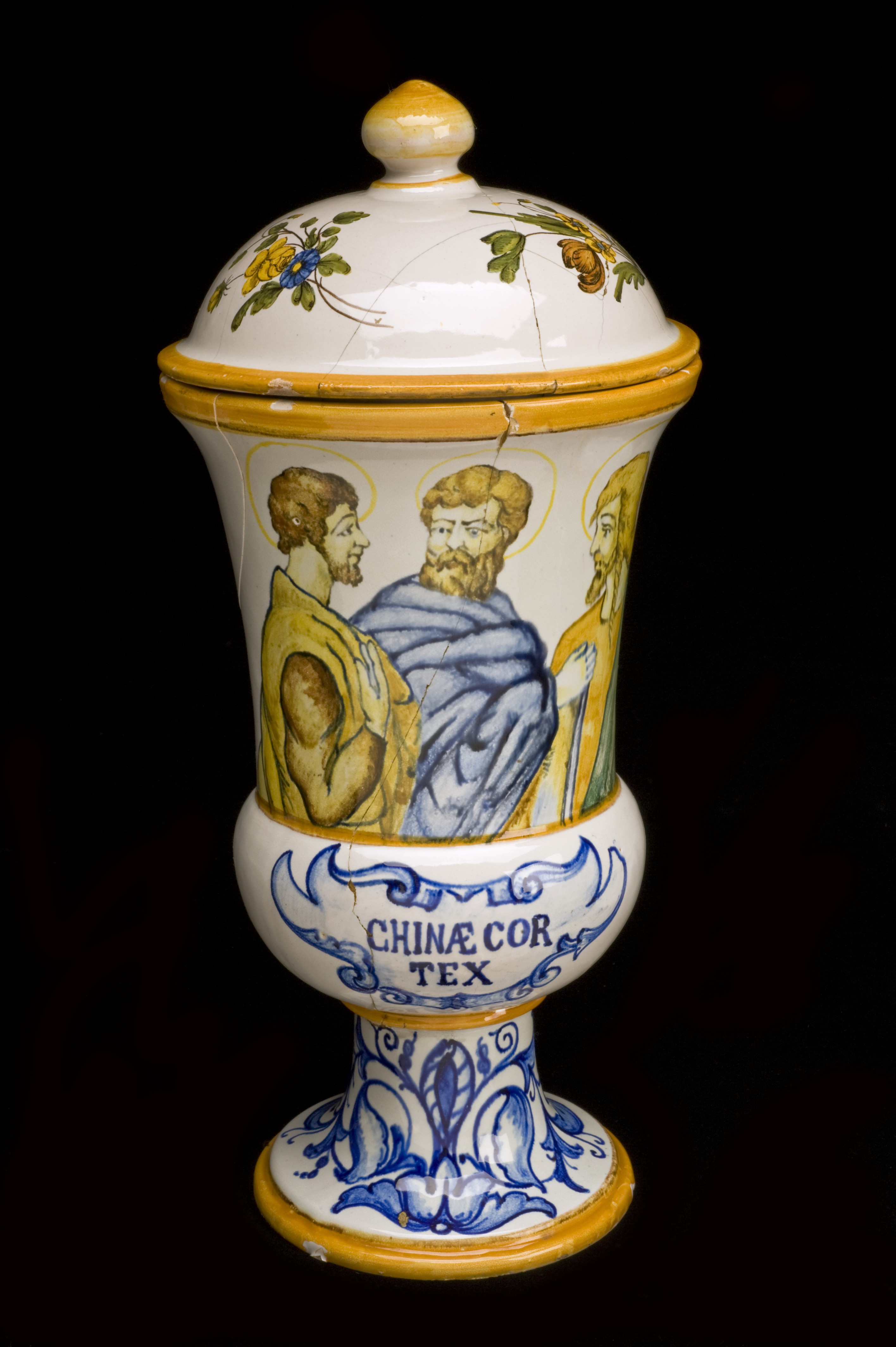 This earthenware jar was used to store cinchona bark. Cinchona was used to prevent heavy bleeding and diarrhoea but is better known as a source of quinine. The active ingredient of cinchona bark, quinine was used for pain relief and to prevent fevers but was primarily a treatment for malaria. The jar is painted with the figures of the Christian Apostles (the twelve original followers of Jesus) and is believed to be from the Castelli region of Italy. maker: Unknown maker Place made: Castelli, Teramo, Abruzzi, Italy Wellcome Images Keywords: Malaria; drug jar; Cinchona; Pharmacy; Quinine; diarrhoea